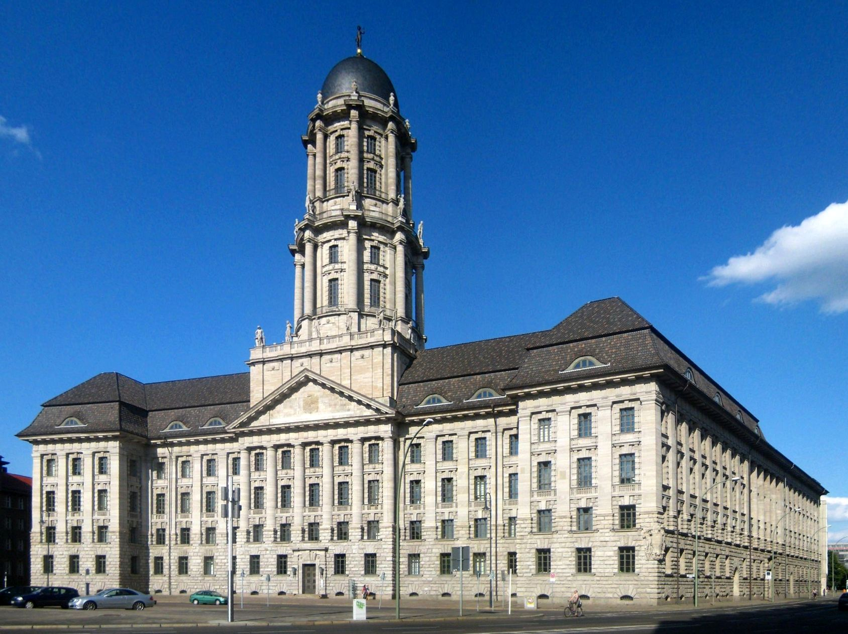 Old Town House on Molkenmarkt in Berlin-Mitte, built 1902 to 1911 to a design by Ludwig Hoffmann. The building has been designated as a historic landmark.